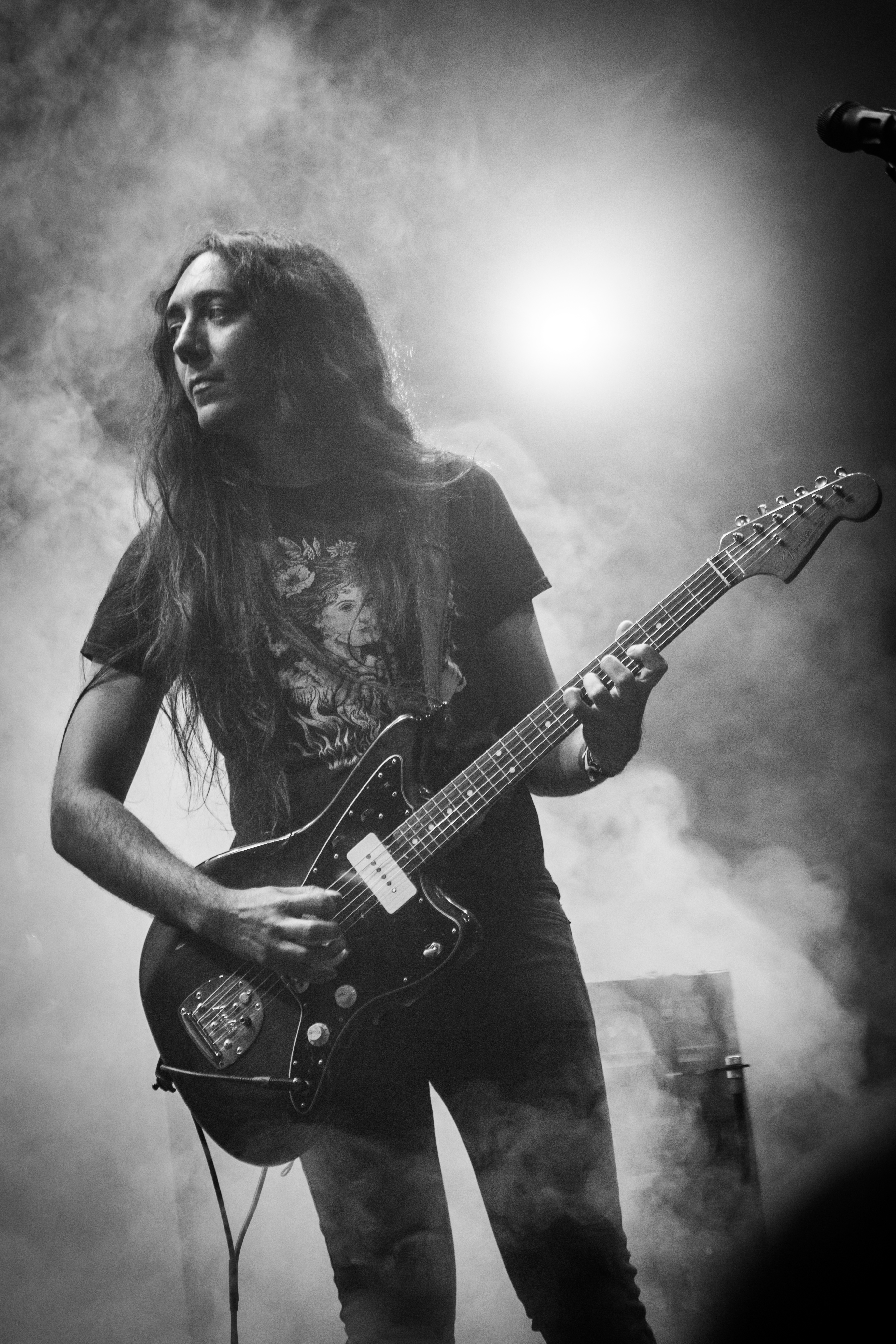 Alcest live at the Prophecy Fest 2016